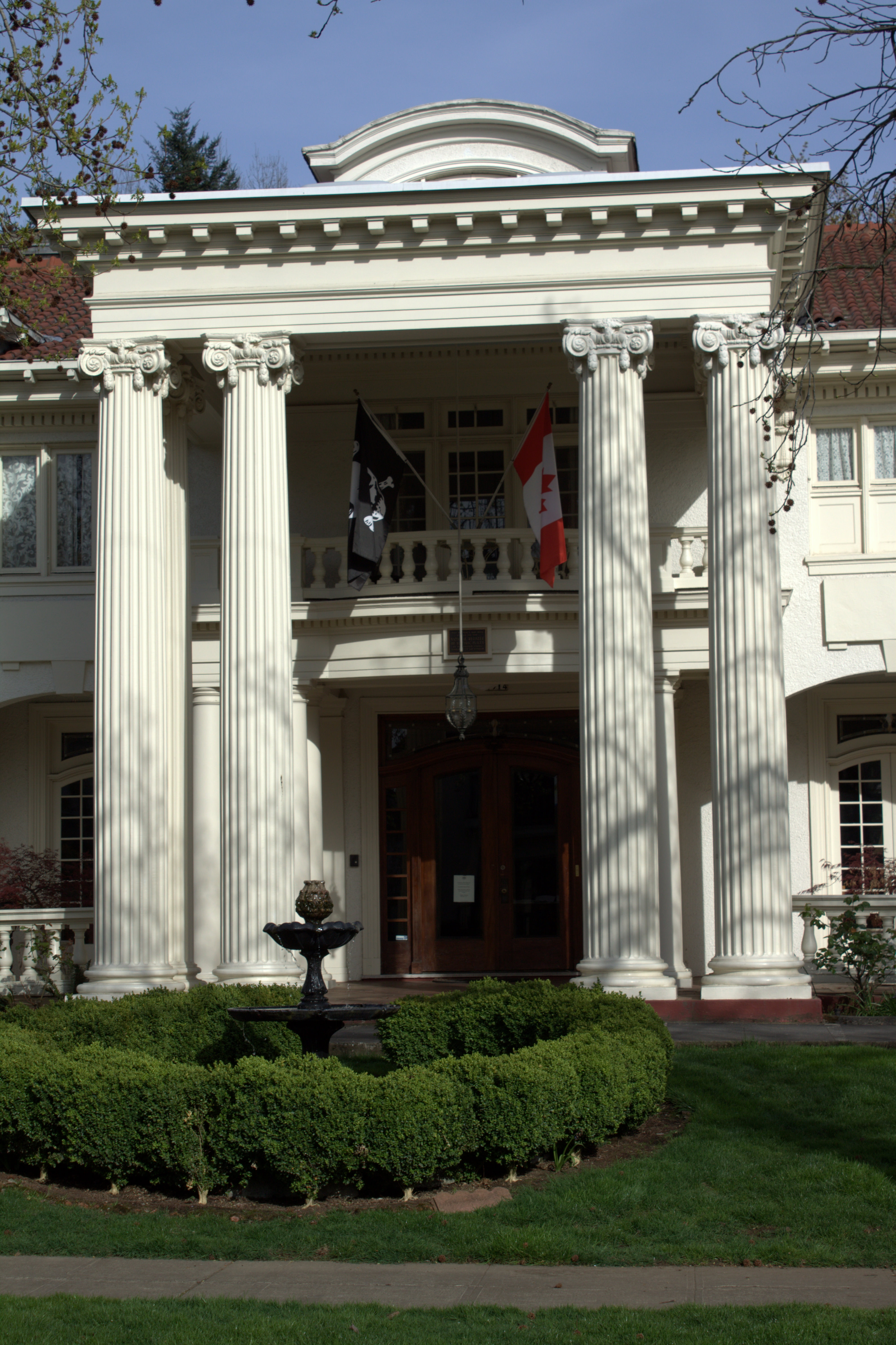 Robert F. Lytle House, aka the White House in Portland, Oregon. At 1914 NE 22nd Avenue, in the Irvington, Portland, Oregon neighborhood.